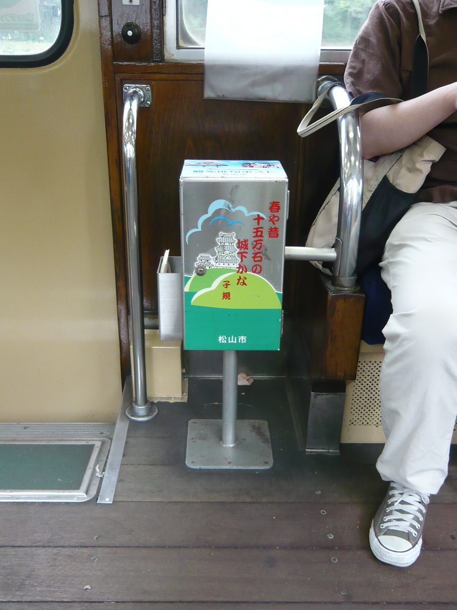 "Haiku post" in Iyo-tetsudo tram car.